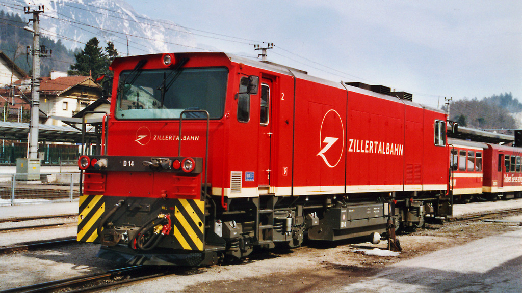 Diesel Engine "Lupo D14" on Zillertalbahn (analogue media)